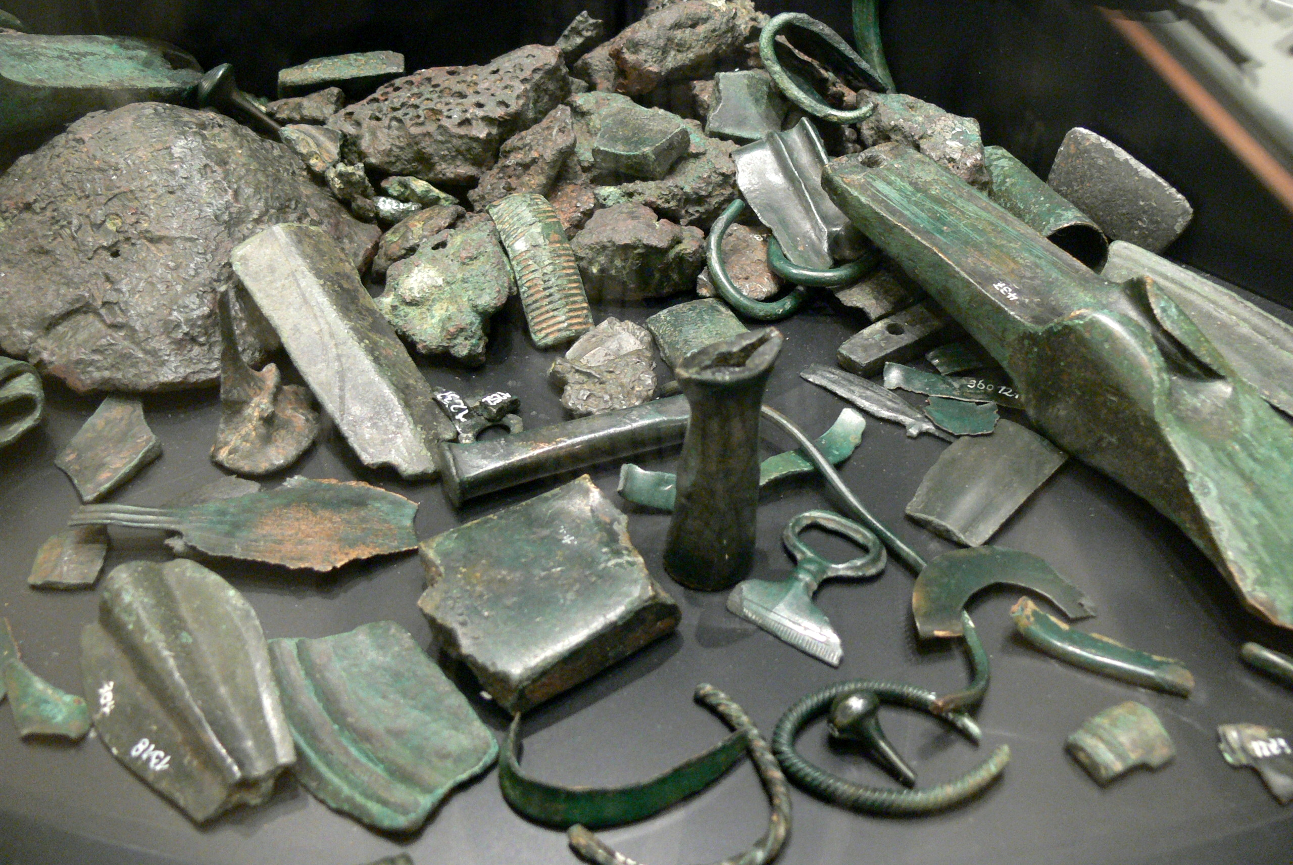 Archaeological museum Gunzenhausen ( Bavaria ). Urnfield Culture ( 12th century BC ): Bronze age hoard from Stockheim.